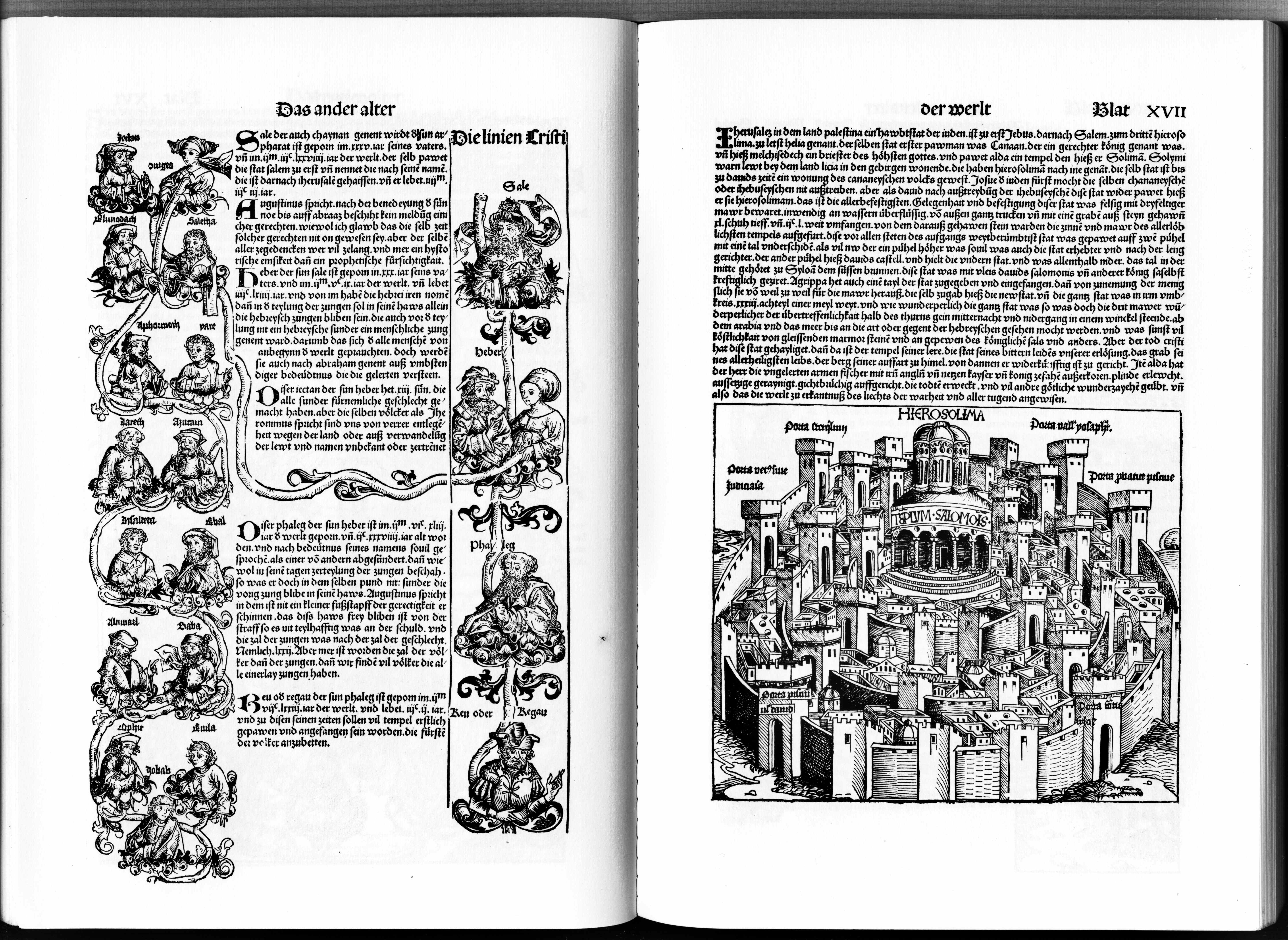 This is a scan of the historical document